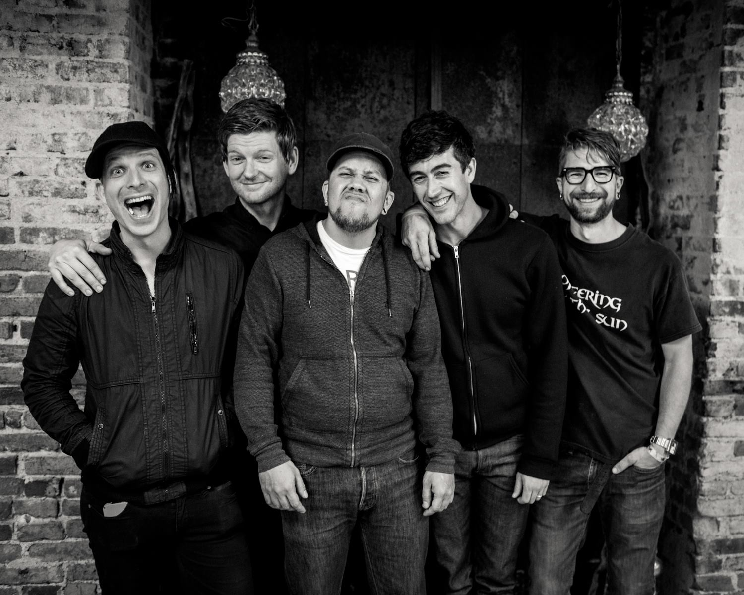 Pipedown re-united in 2013 for a short stint of shows.